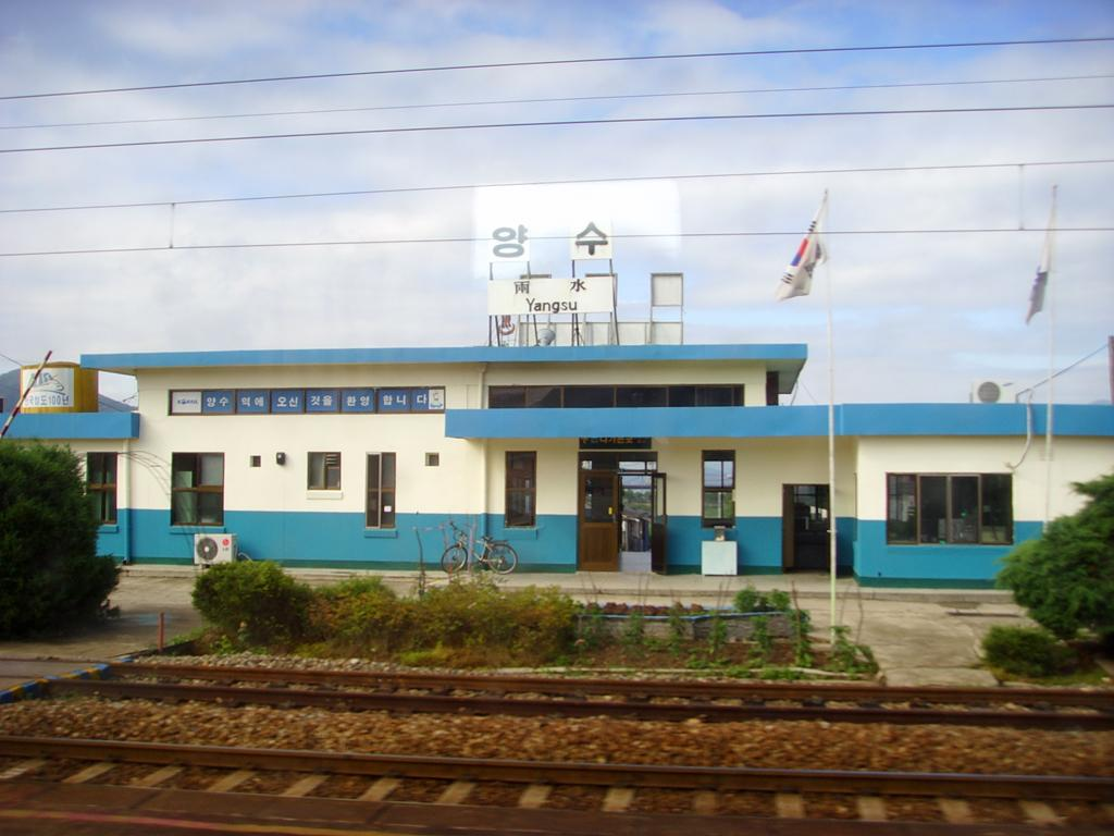 Jungang Line Yangsu Station